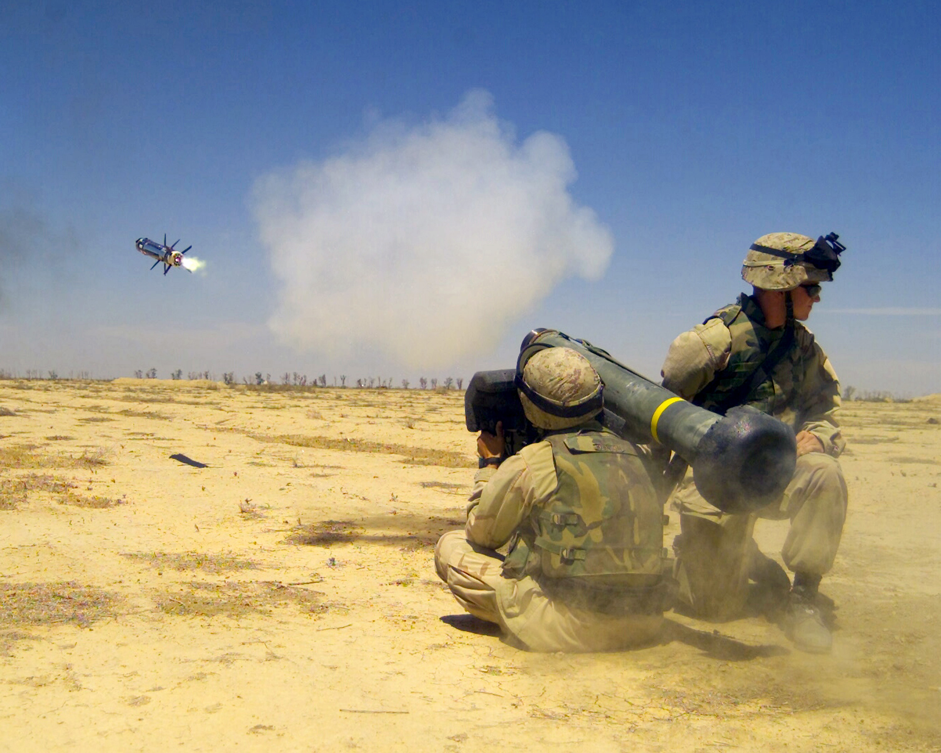 A soldier launches a FGM-148 Javelin anti-tank missile